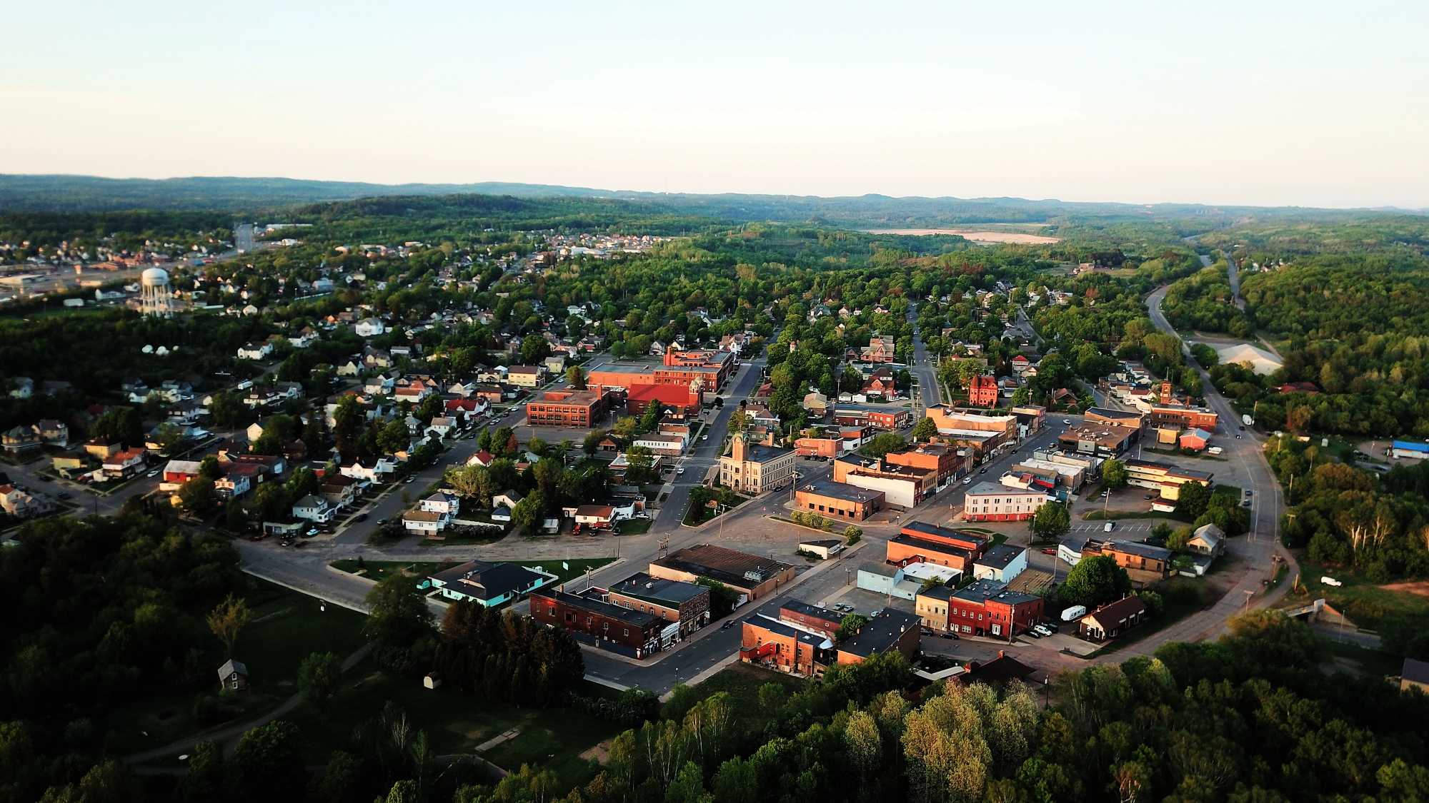 Downtown Negaunee, Michigan, 2018.